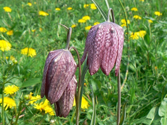 Snake's head fritillary, North Meadow National Nature Reserve, Cricklade The NNR covers about 1.5 sq km north of Cricklade. It is known in particular for this flower, Fritillaria meleagris. Wiki: The NNR is runs by Natural England